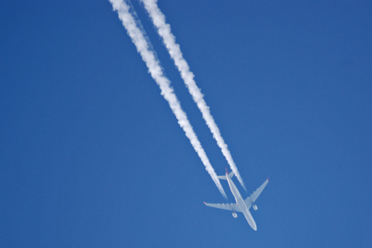 High in the clear blue sky over Amsterdam. Amsterdam schiphol [AMS / EHAM] 07-12-2008